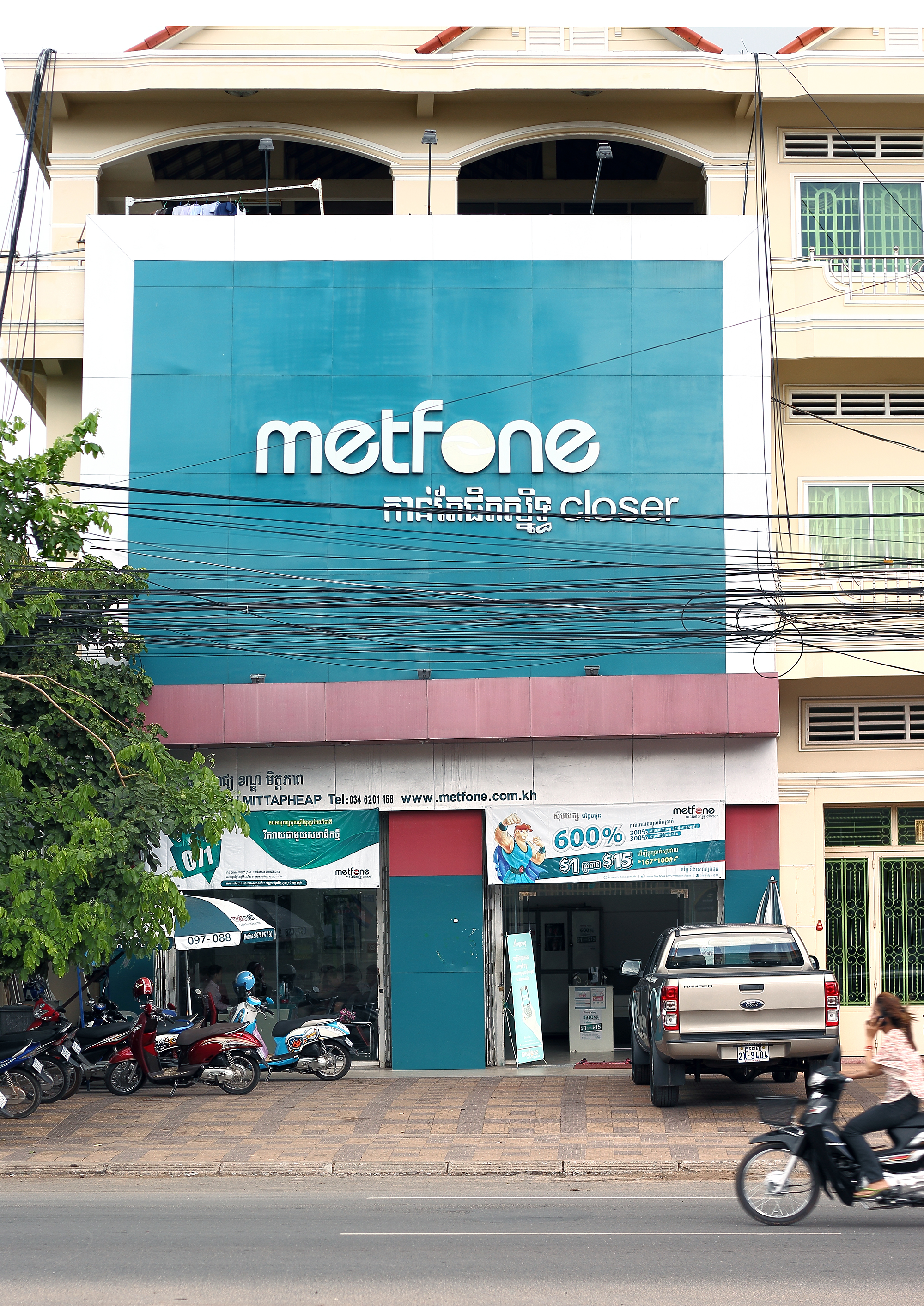 Sihanoukville. Cell phone - METFONE. Ekareach street.